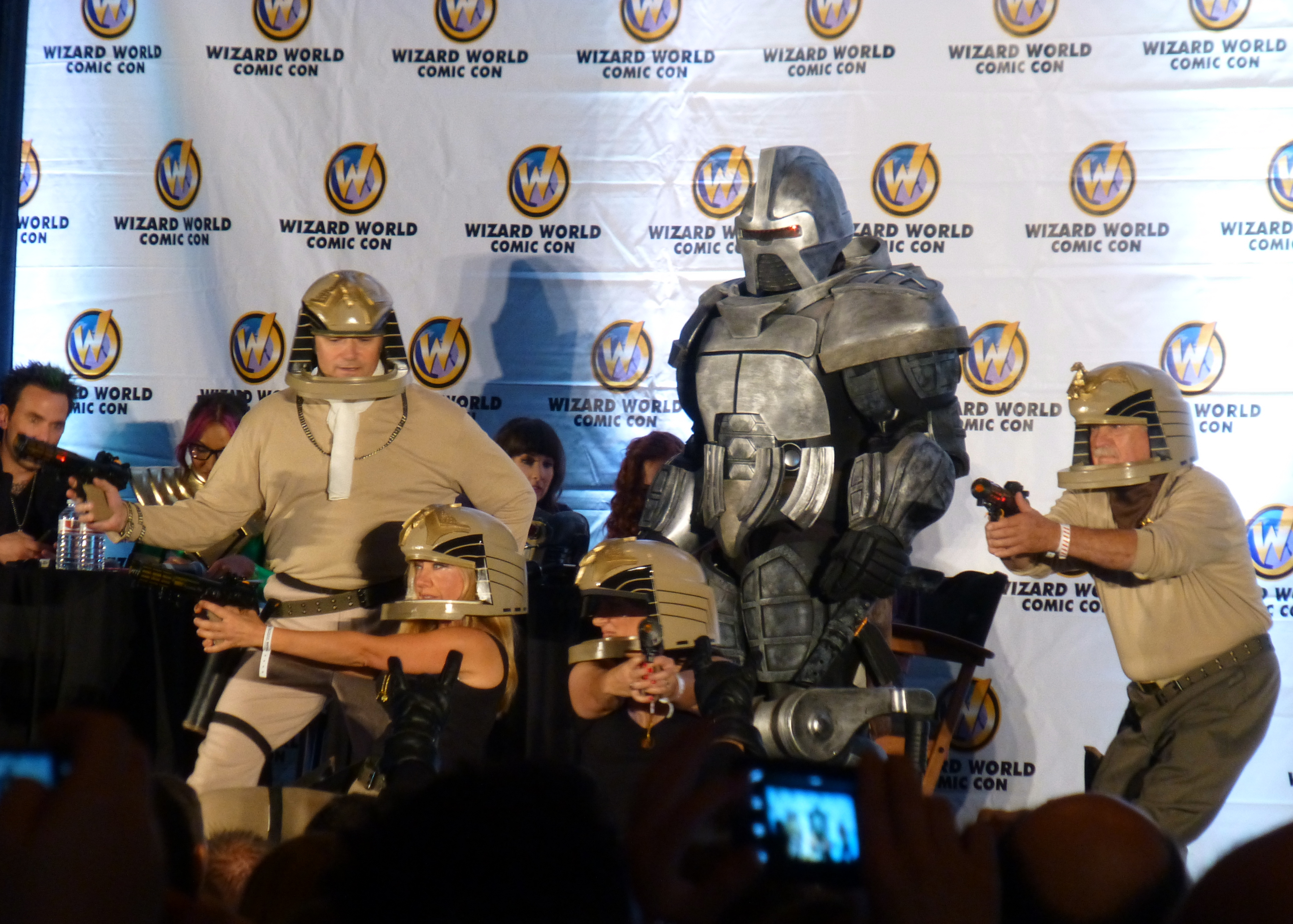 Group cosplay of the original Battlestar Galactica in the costume competition at the 2014 Wizard World Chicago. This group won best in show.